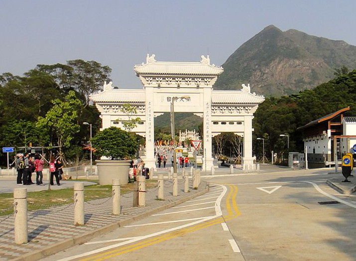 Tian Tan Buddha Entrance